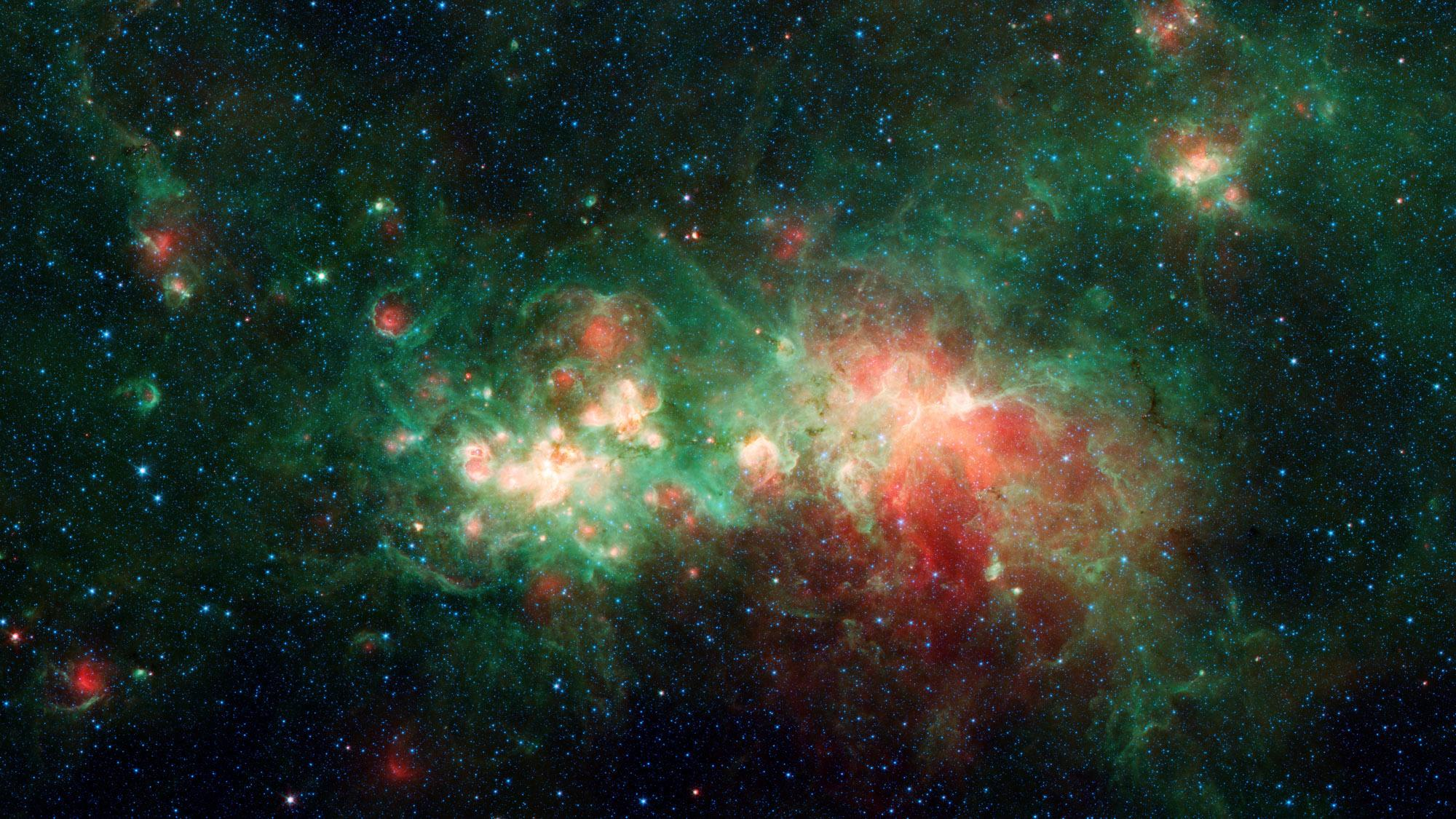 August 25, 2020 Spitzer Image of Star Factory W51 This image from NASAs Spitzer Space telescope shows the star-forming nebula W51, one of the largest star factories in the Milky Way galaxy. The star-forming nebula W51 is one of the largest "star factories" in the Milky Way galaxy. Interstellar dust blocks the visible light emitted by the region, but it is revealed by NASA's Spitzer Space Telescope, which captures infrared light that can penetrate dust clouds. NASA's Jet Propulsion Laboratory, Pasadena, Calif., manages the Spitzer Space Telescope mission for NASA's Science Mission Directorate, Washington. Science operations are conducted at the Spitzer Science Center at the California Institute of Technology, also in Pasadena. Caltech manages JPL for NASA. More information on Spitzer can be found at its website